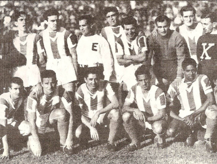 CA Banfield in 1946. That team won the Segunda División (current Primera B) title.